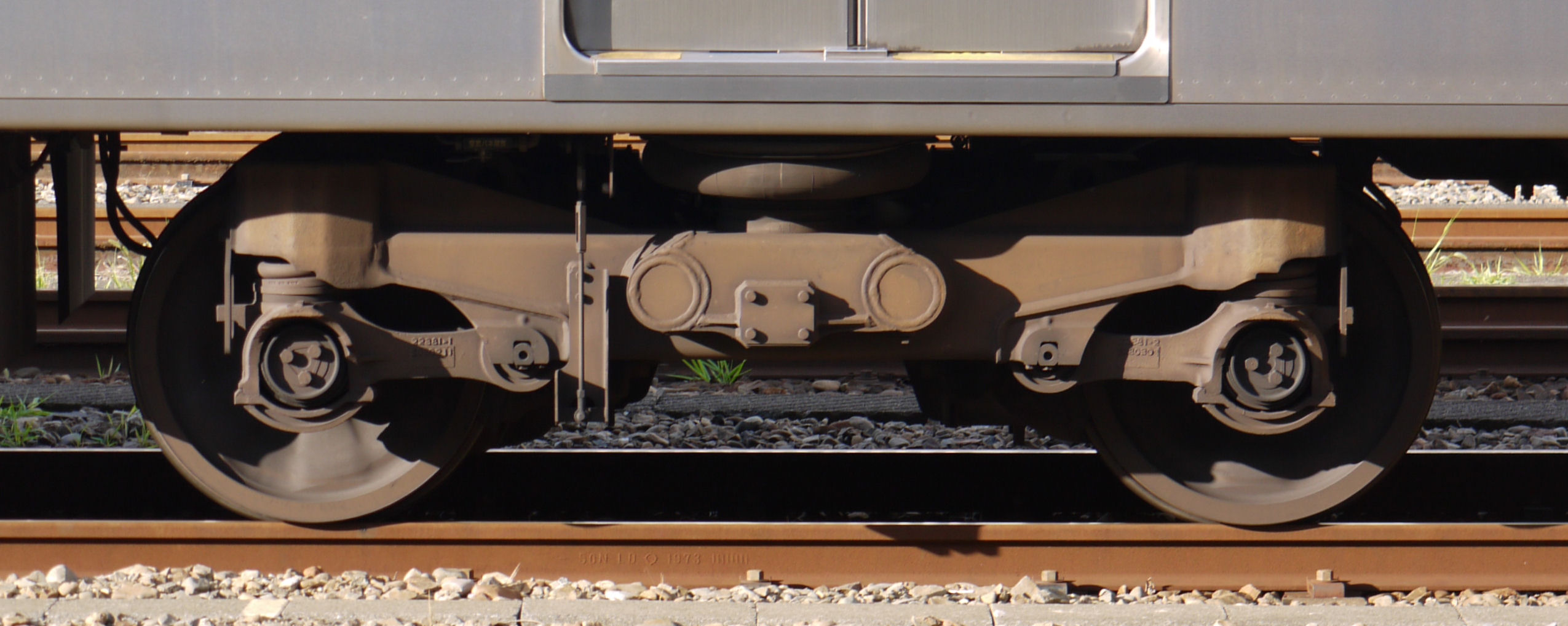 TS-1017 bogie truck for Keio 9000